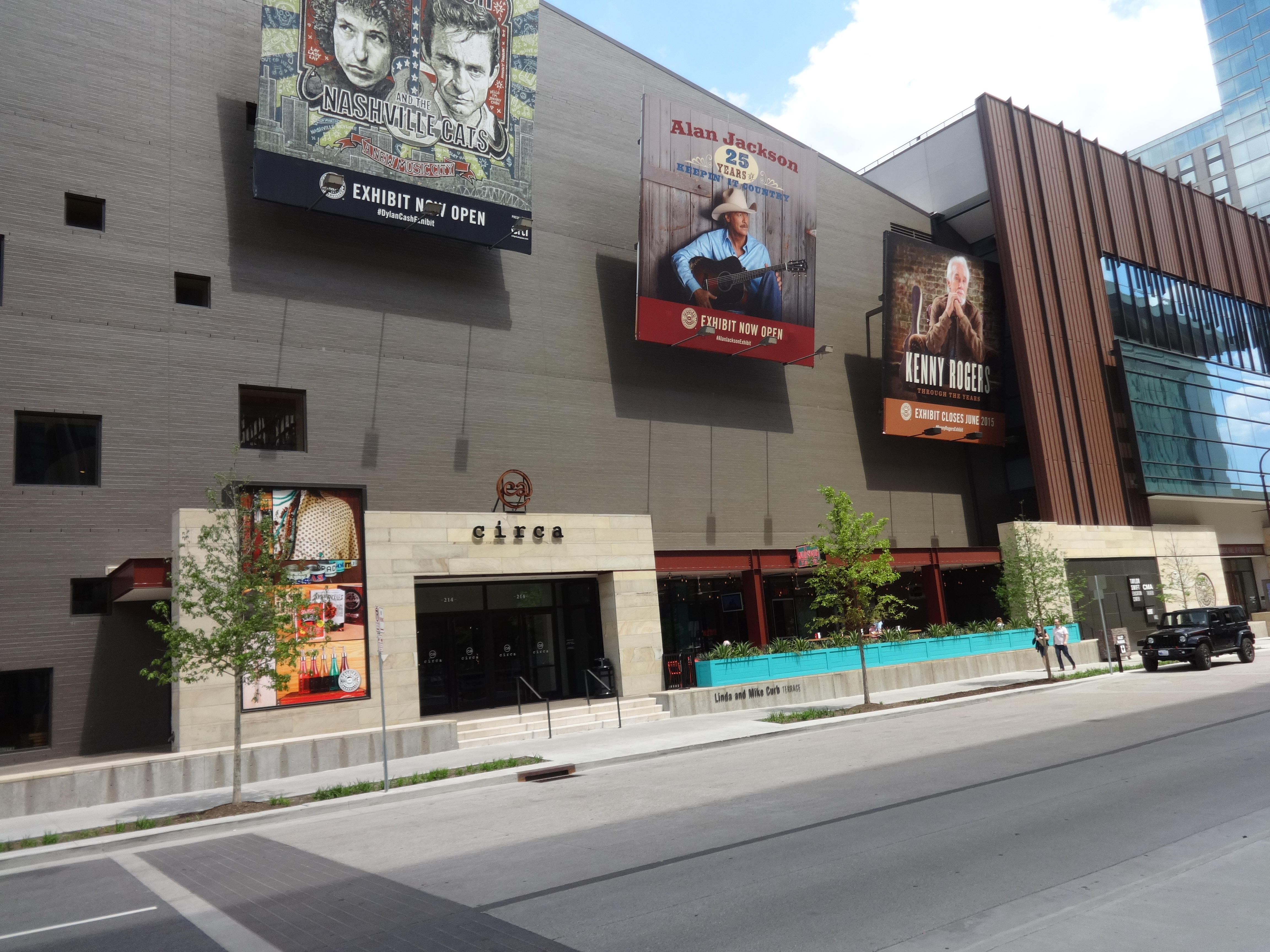 Country Music Hall of Fame, 222 5th Ave S, Nashville, Davidson County, Tennessee